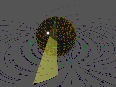 Mobius transformation, showing stereographic projection between plane and sphere. Generated with POVRAY. Povray file created with a java program. Donated to the Public Domain.